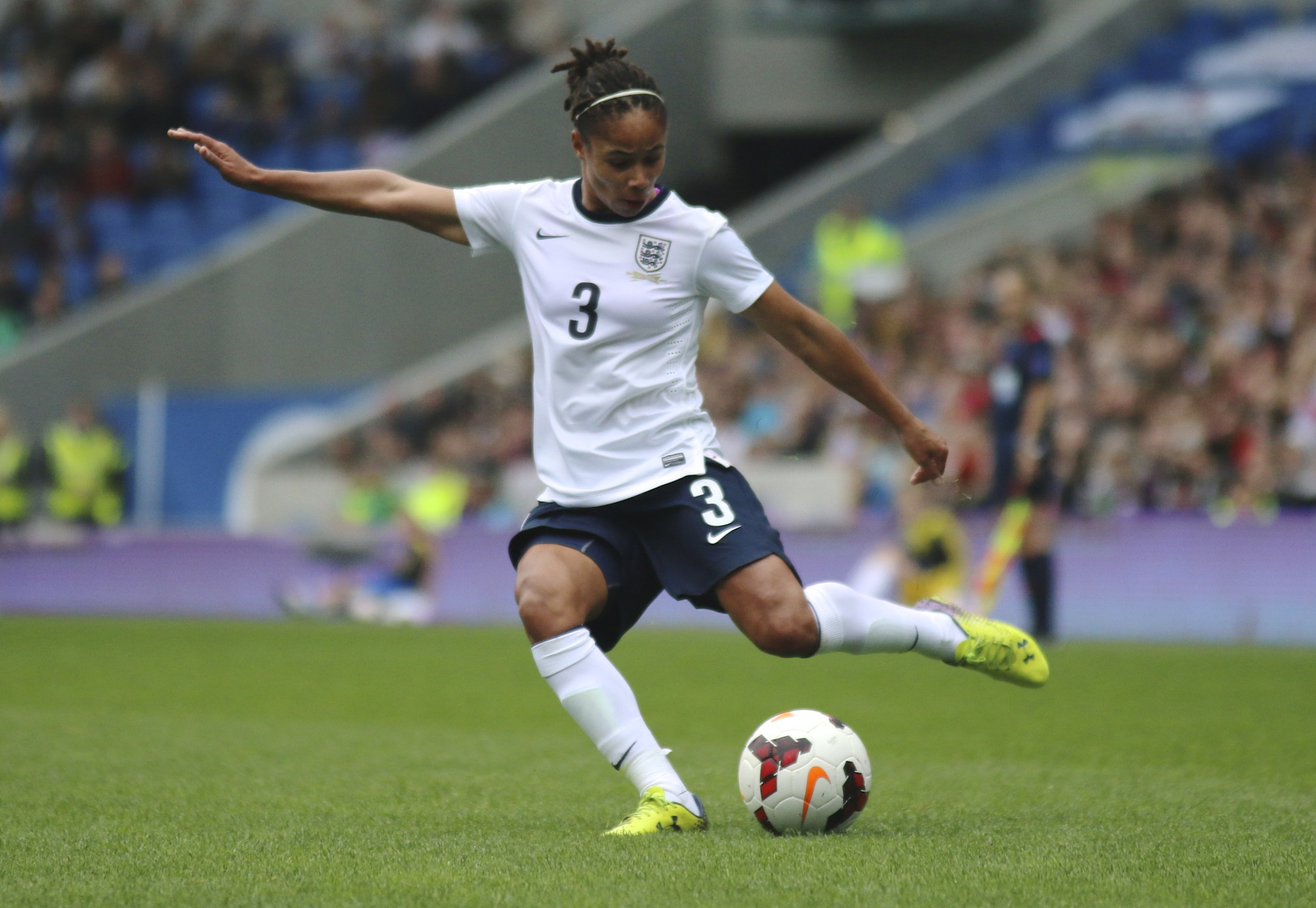 Demi Stokes of England in 2014